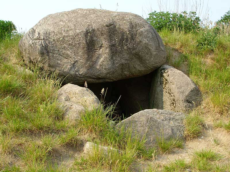 Albersdorf Steingrab (Frestedt)